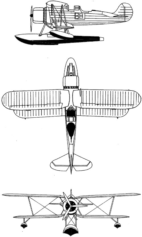 Ro.43 three views